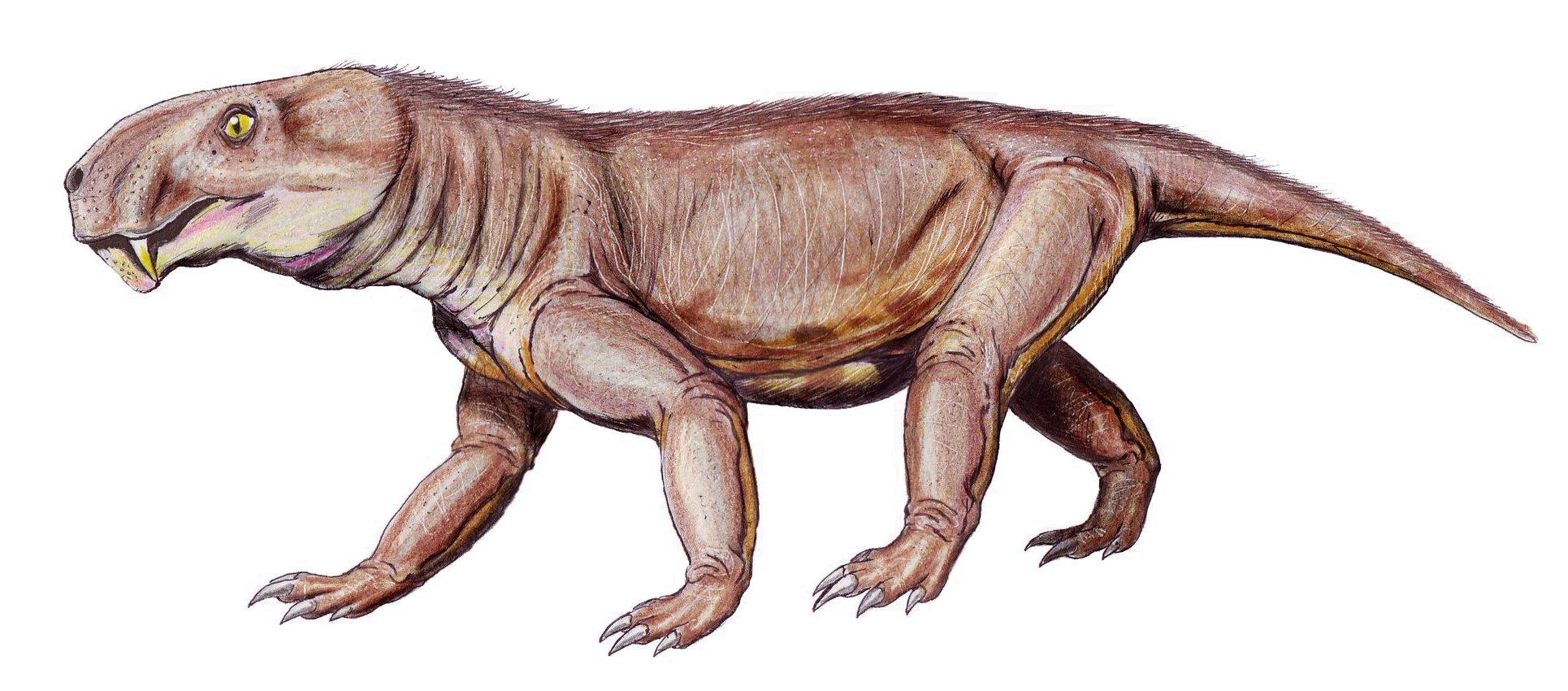 Sauroctonus parringtoni